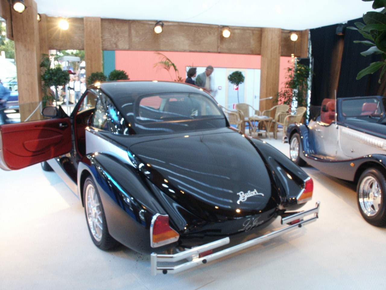 A Bufori Mark III — an automobile in Malaysia.